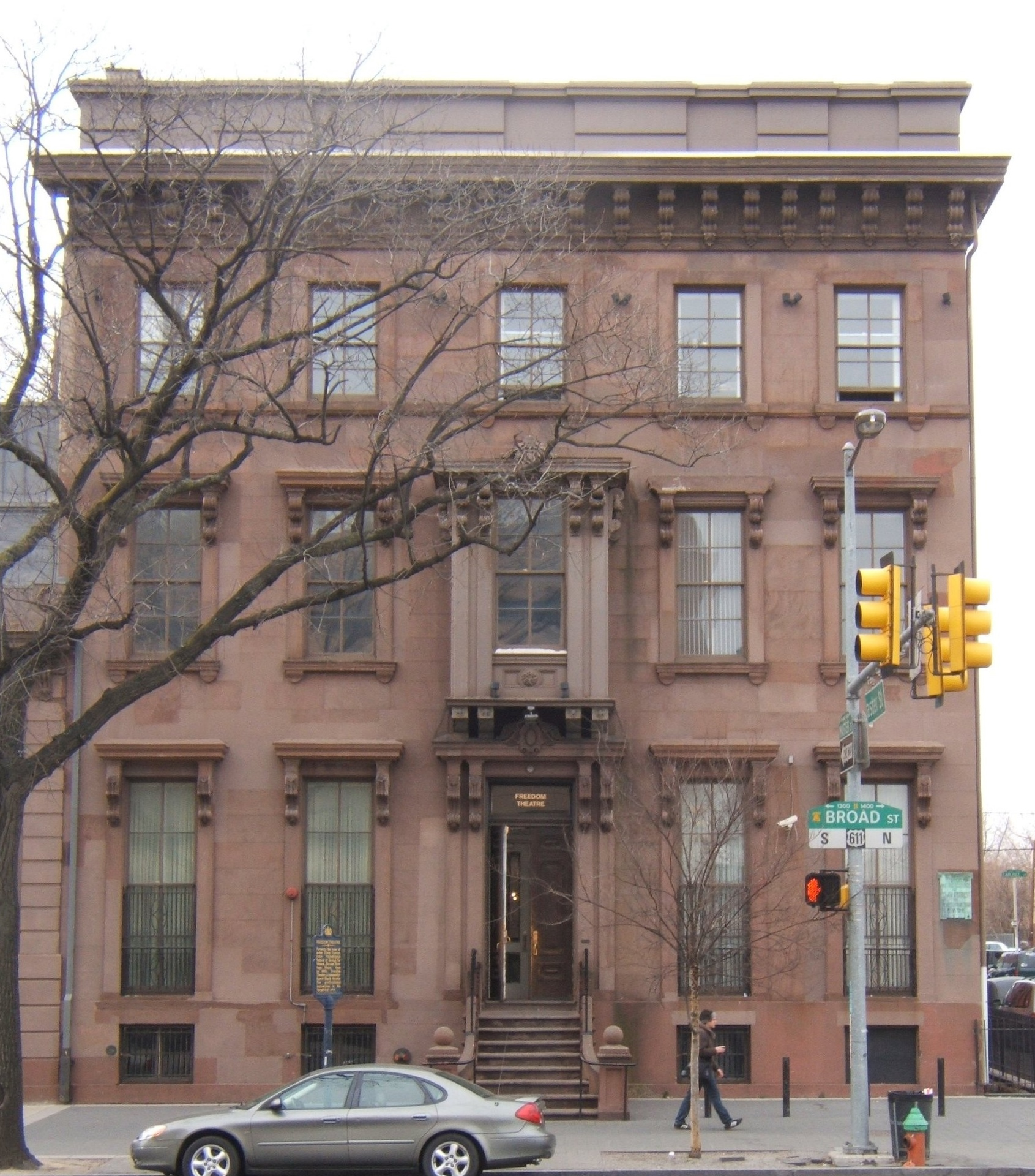 The Edwin Forrest House was built in 1865, and owned by Forrest until his death in the house in 1872. The Philadelphia School of Design purchased the house in 1880, and an extensive addition was made along Master Street through to Carlisle Street Today the building is occupied by Freedom Theatre, a Black community-based theatre and theatre arts training facility. Street address 1346 Broad Street, at Master Street.